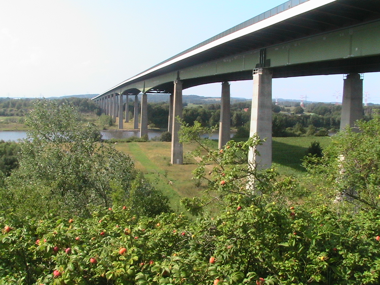 Bridge of the Bundesautobahn No. 7 over the Kiel Canal (Germany)